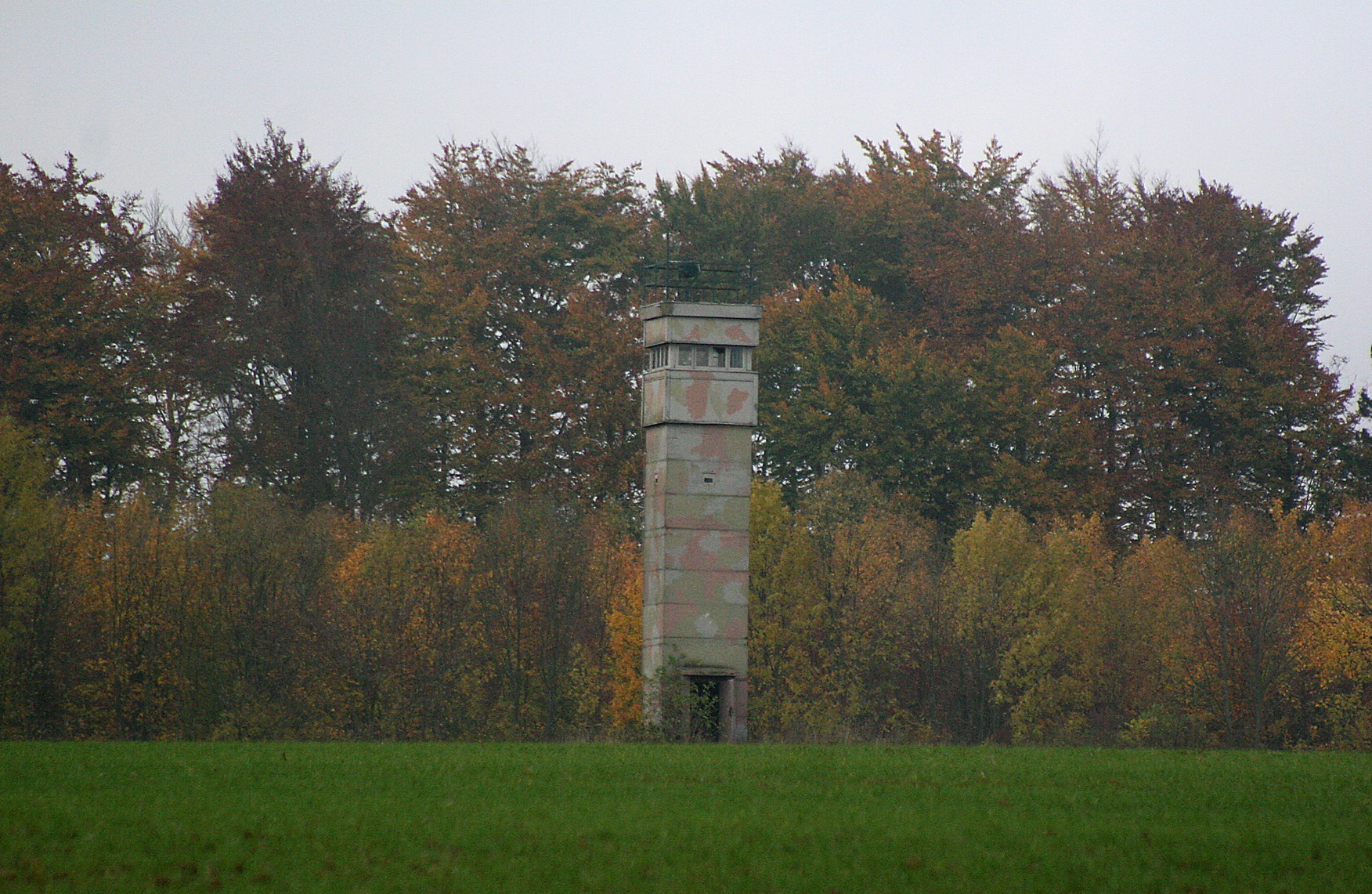 Border tower Katharinenberg at the former border between the two Germanies near Wanfried